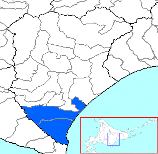 The location of Hiroo District in Tokachi Subprefecture, Hokkaido Prefecture, Japan.